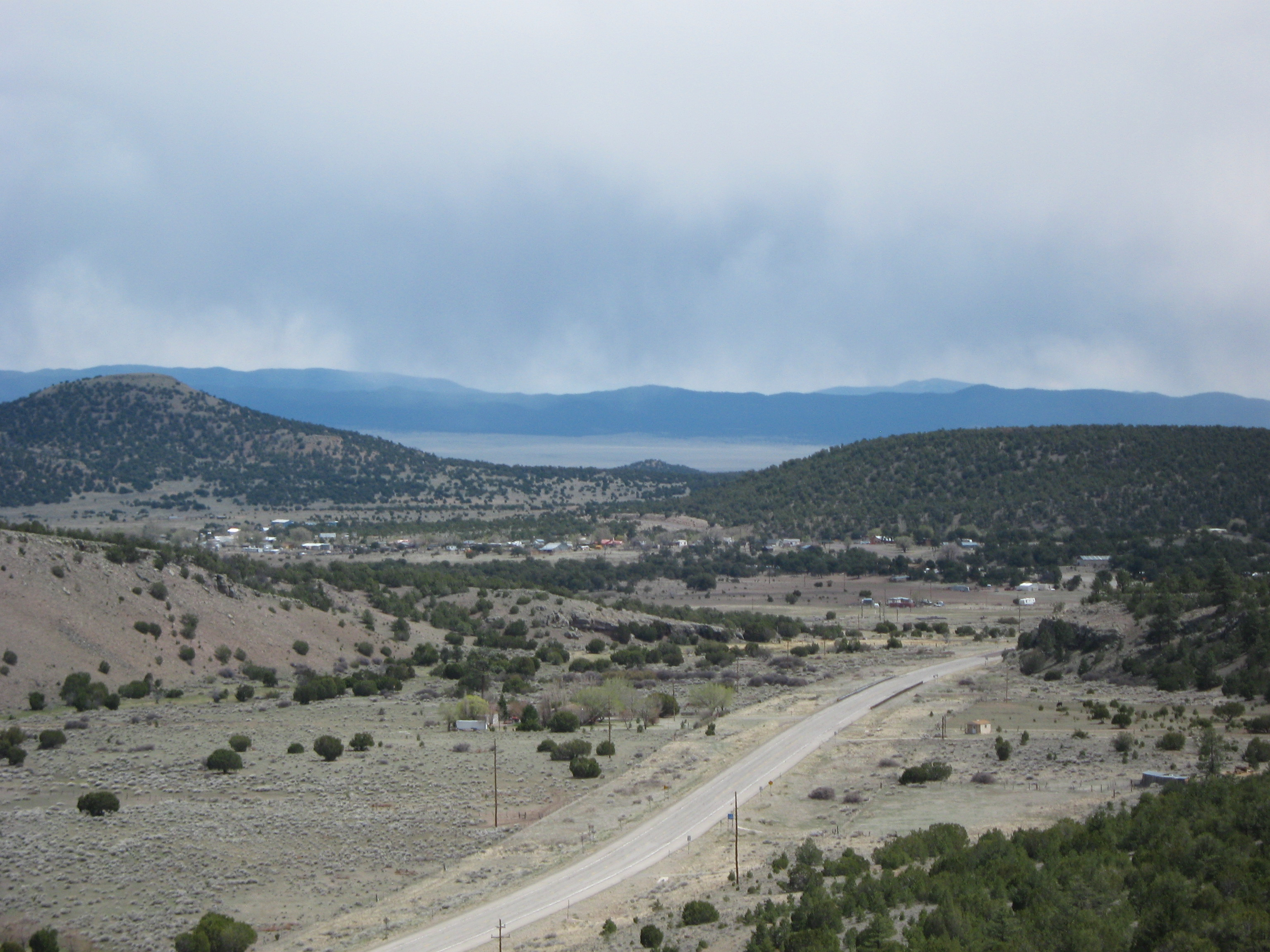 Datil, New Mexico, viewed from approximately two miles northwest. U.S. Highway 60 passes through the picture. The Plains of San Agustin are visible in the distance.